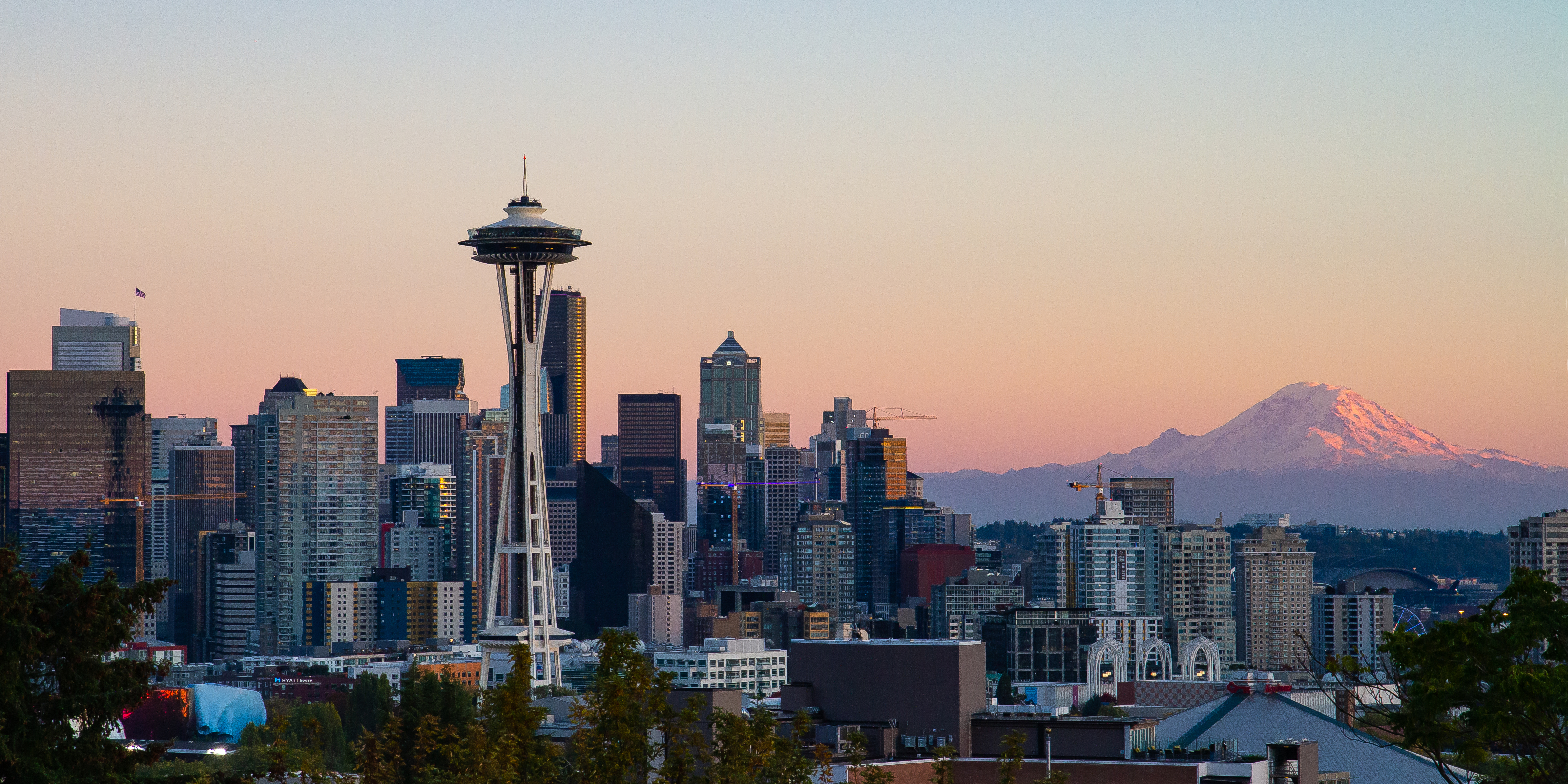 Seattle skyline from Kerry Park